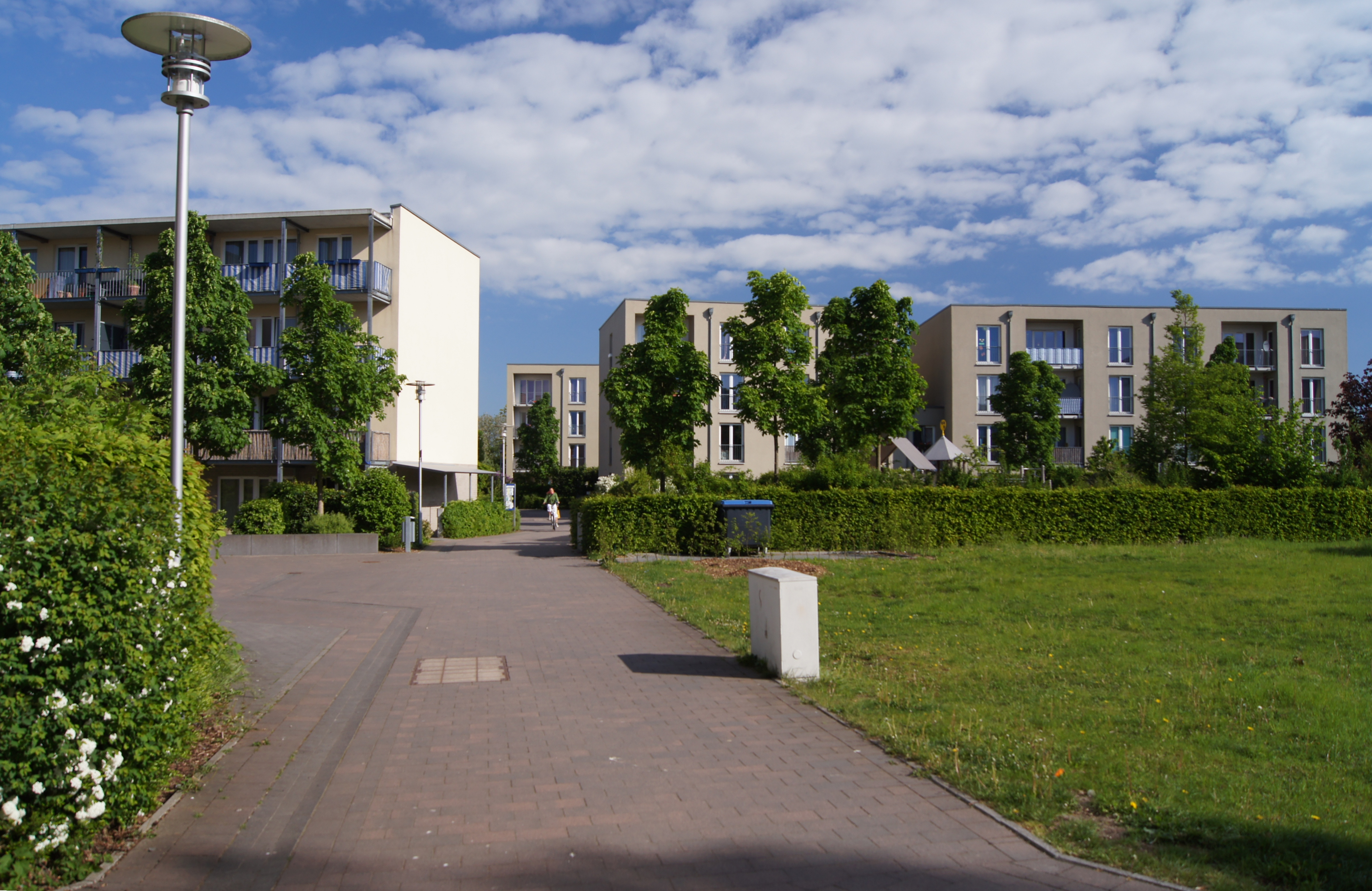 Car-free neighbourhood Weißenburg in Münster (Westphalia). Seen from the south.